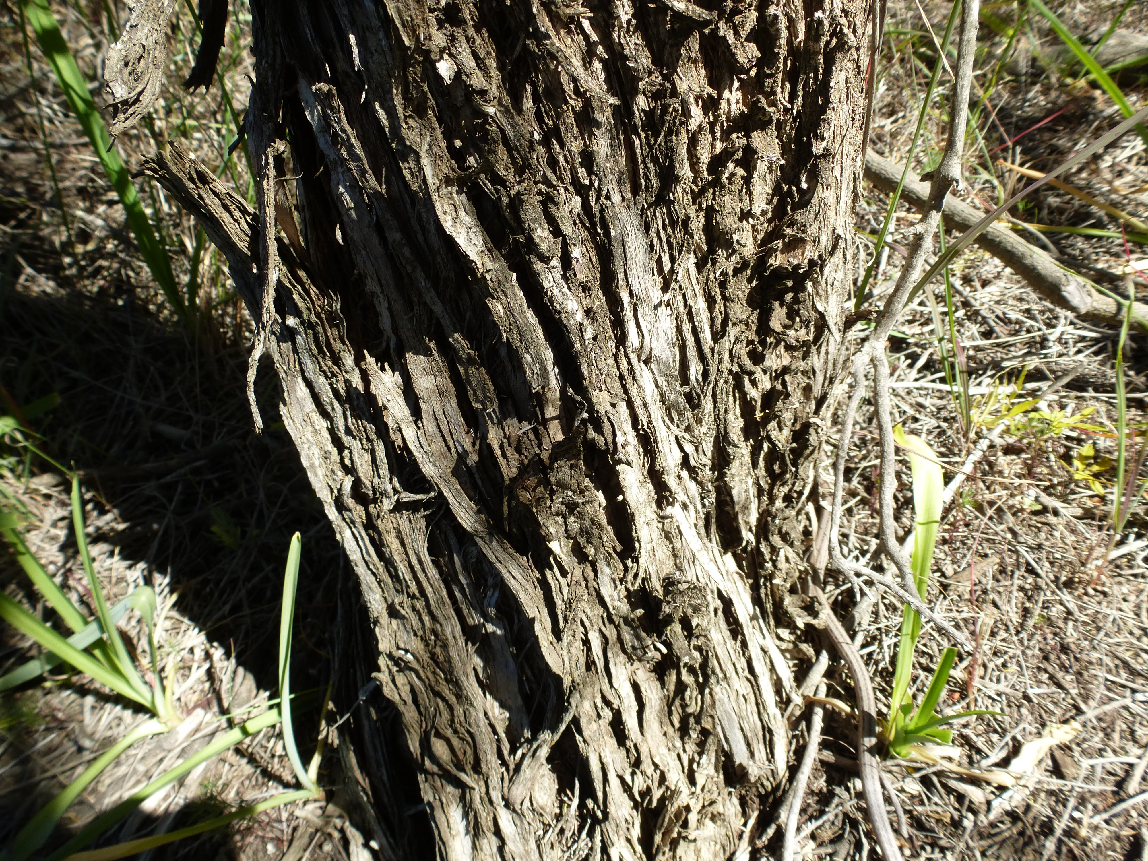 Melaleuca rhaphiophylla growing along White Peak Road near Geraldton